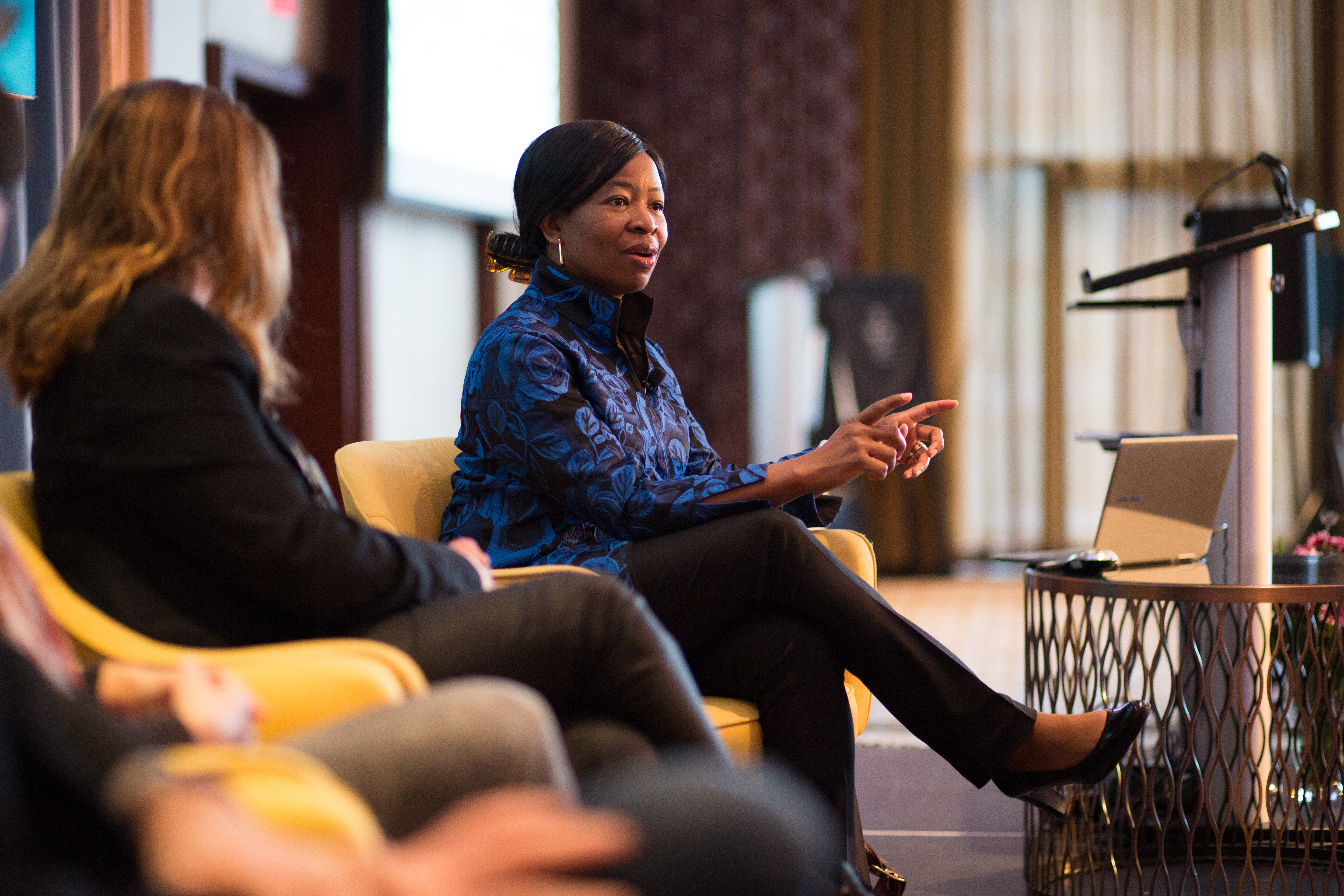 Ruth Okediji giving a keynote at the Creative Commons Global Summit in Toronto, Canada, April 13-15, 2018.